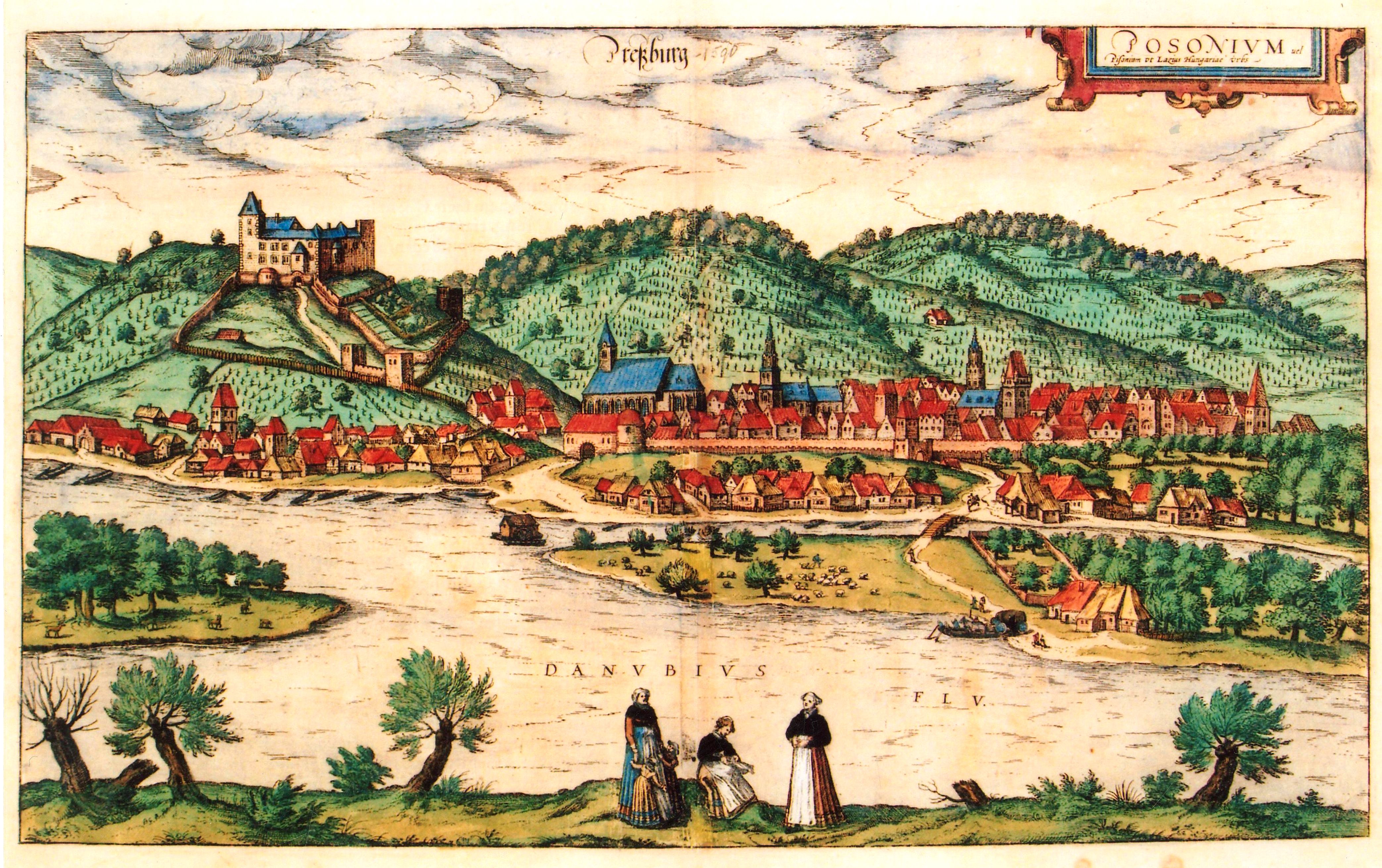 Pozsony in 16th century. Original antique map of Bratislava, published for the Civitates Orbis Terrarum, the first atlas of printed town plans.